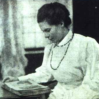 Sister Nivedita (1867–1911) reading a book